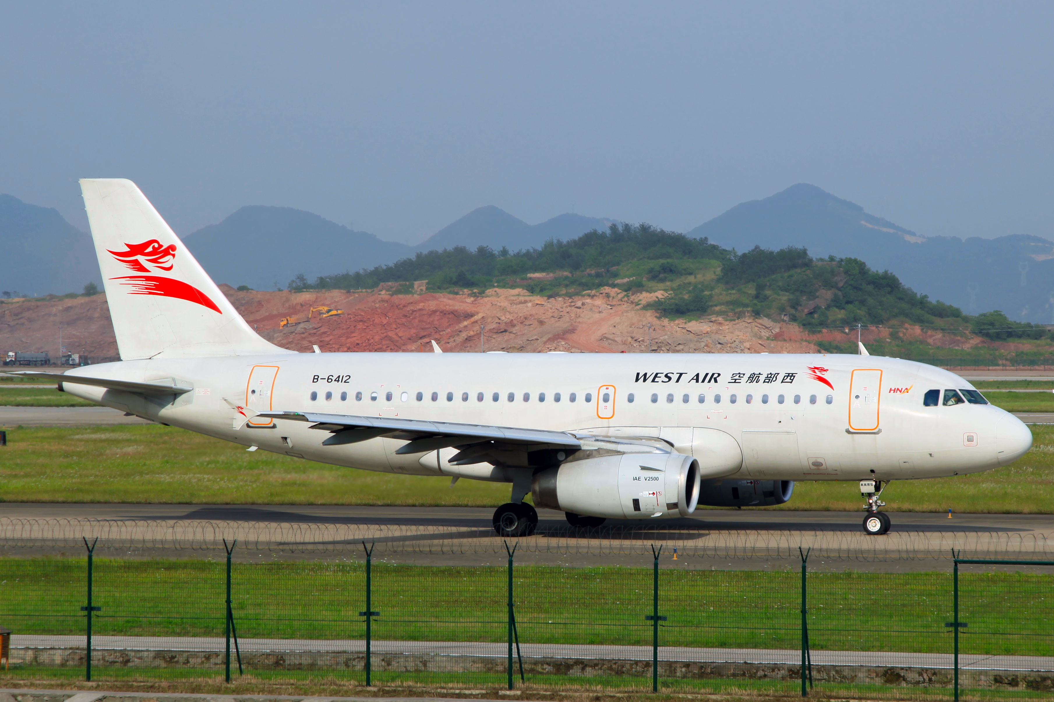 China West Air Airbus A319-133 B-6412 @ Chongqing Jiangbei International Airport